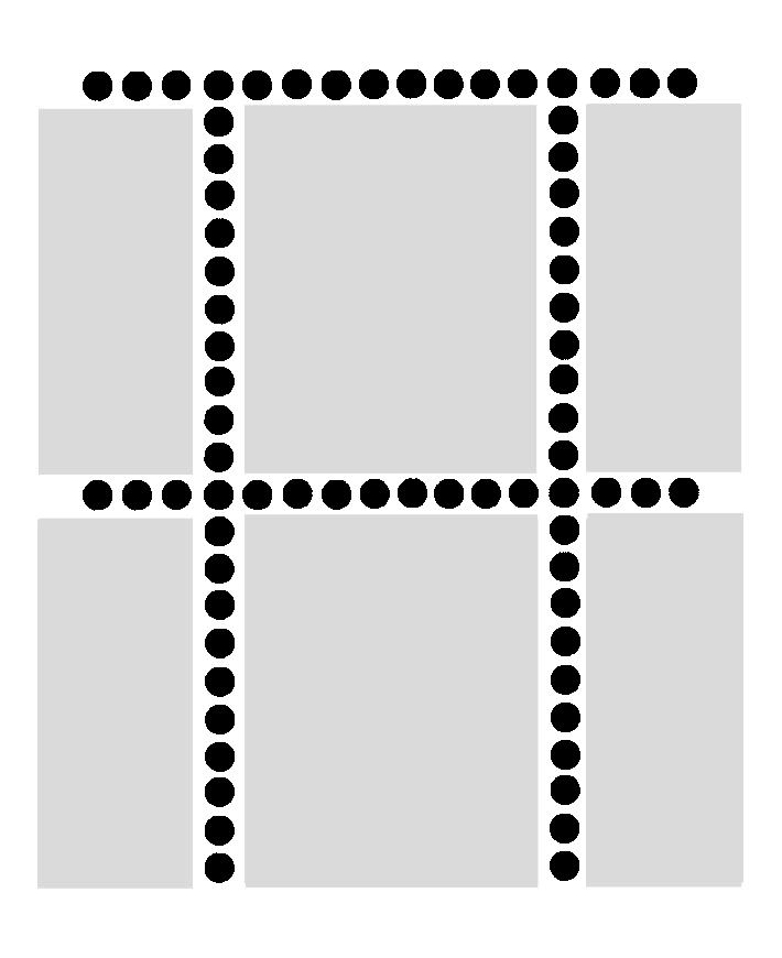 Comb perforation: 2nd step.